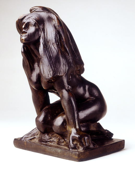 The Succubus